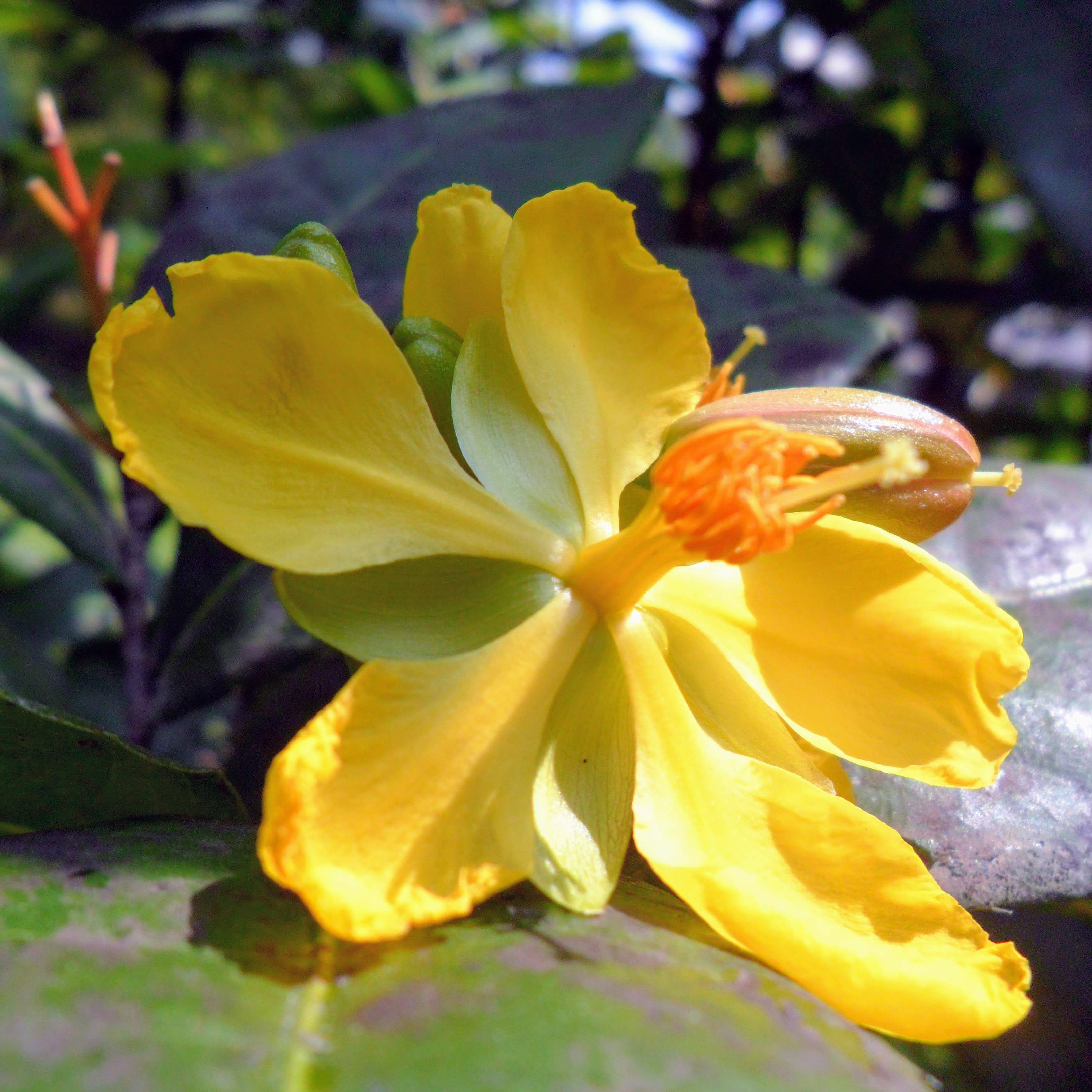 Ochna serrulata